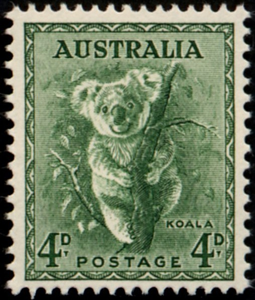 A postage stamp of Australia issued 1937